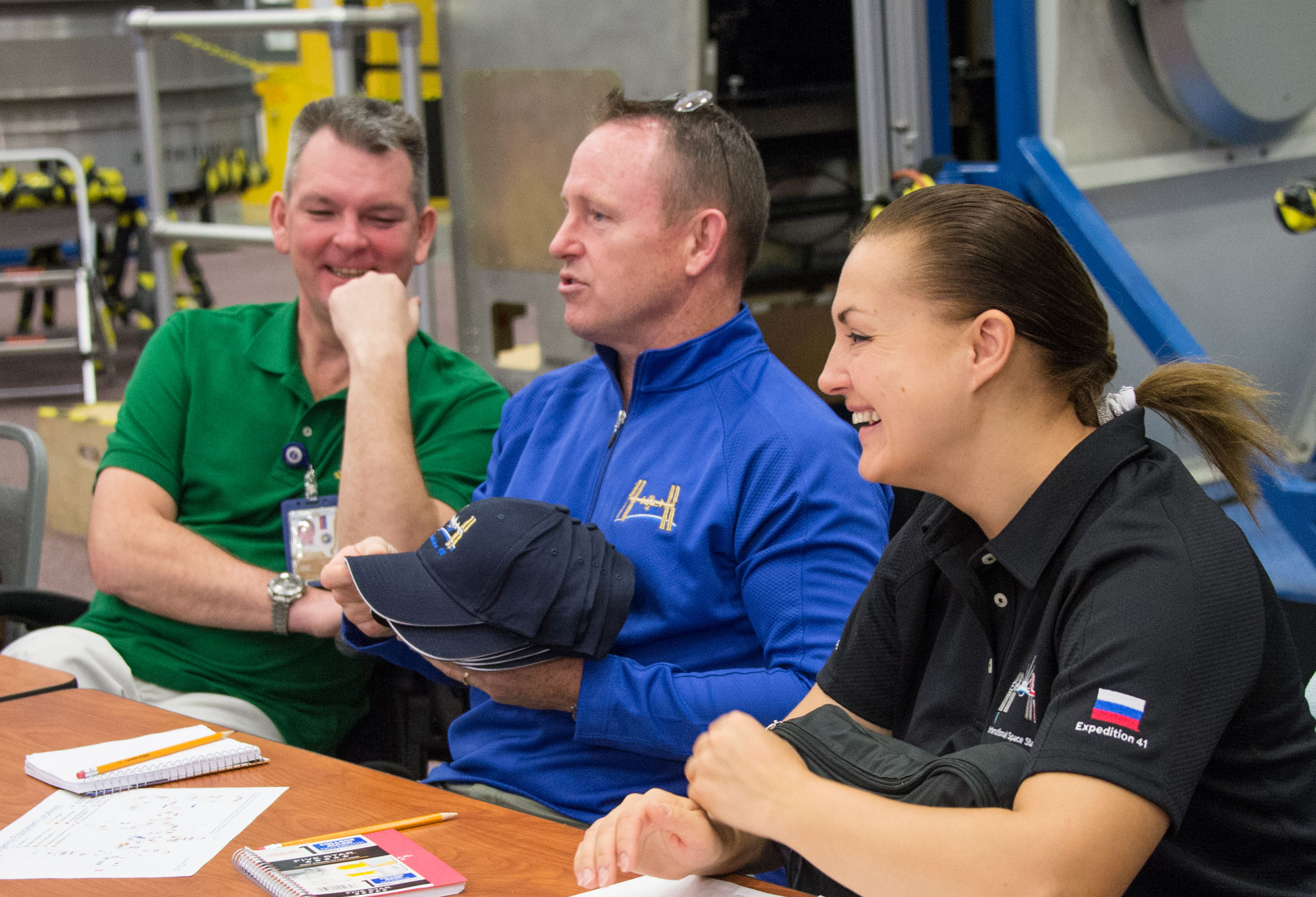 NASA astronaut Barry Wilmore (second right), Expedition 41 flight engineer and Expedition 42 commander; along with Russian cosmonauts Elena Serova and Alexander Samokutyaev, both Expedition 41/42 flight engineers, are pictured during an emergency scenario training session in the Space Vehicle Mock-up Facility at NASA's Johnson Space Center.